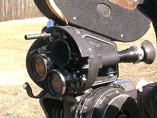 An Arriflex 35 IIB, with three lenses and a 120 m (400 ft) magazine